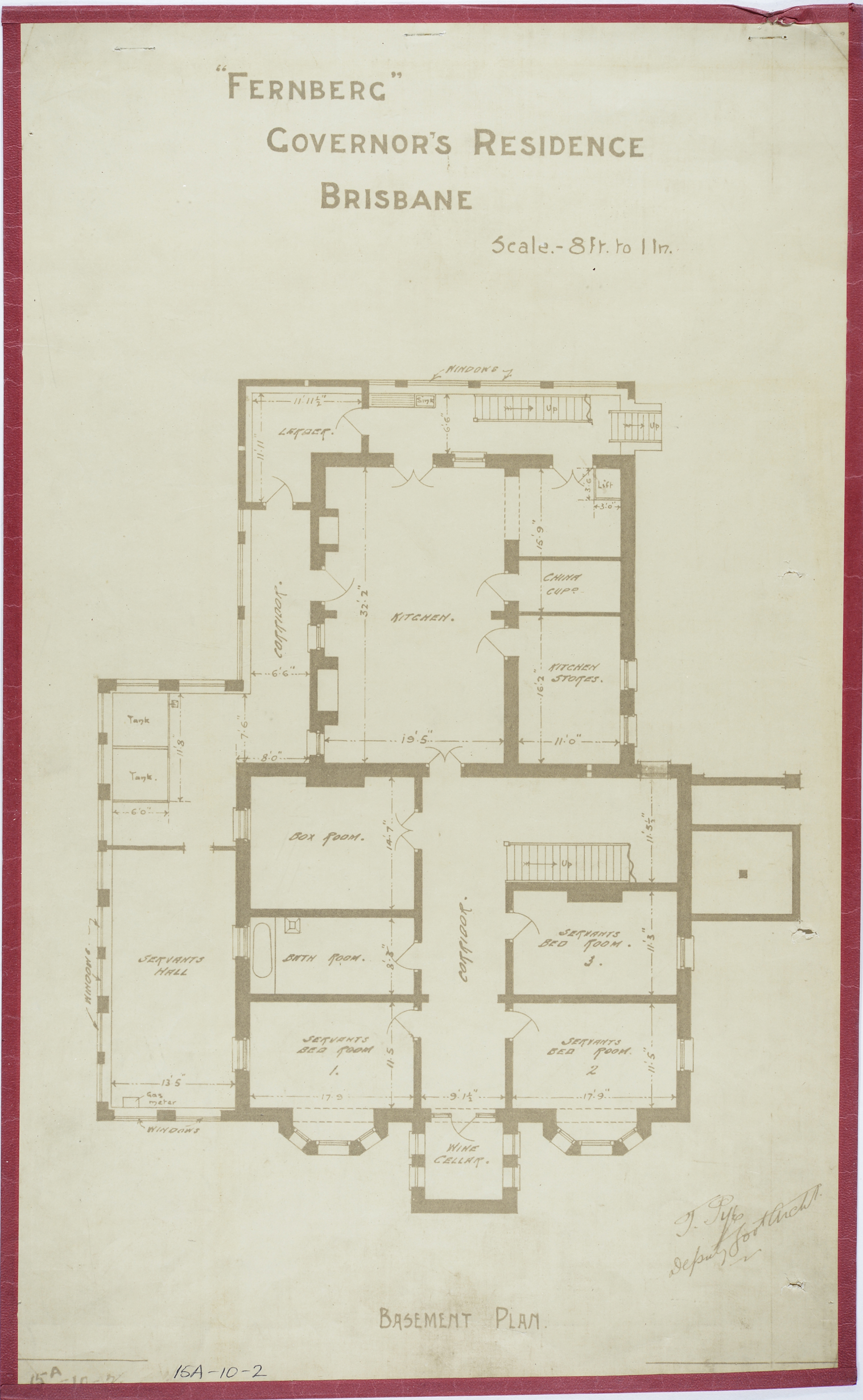 Fernberg, Governor's Residence, Brisbane, Basement Plan, c 1884